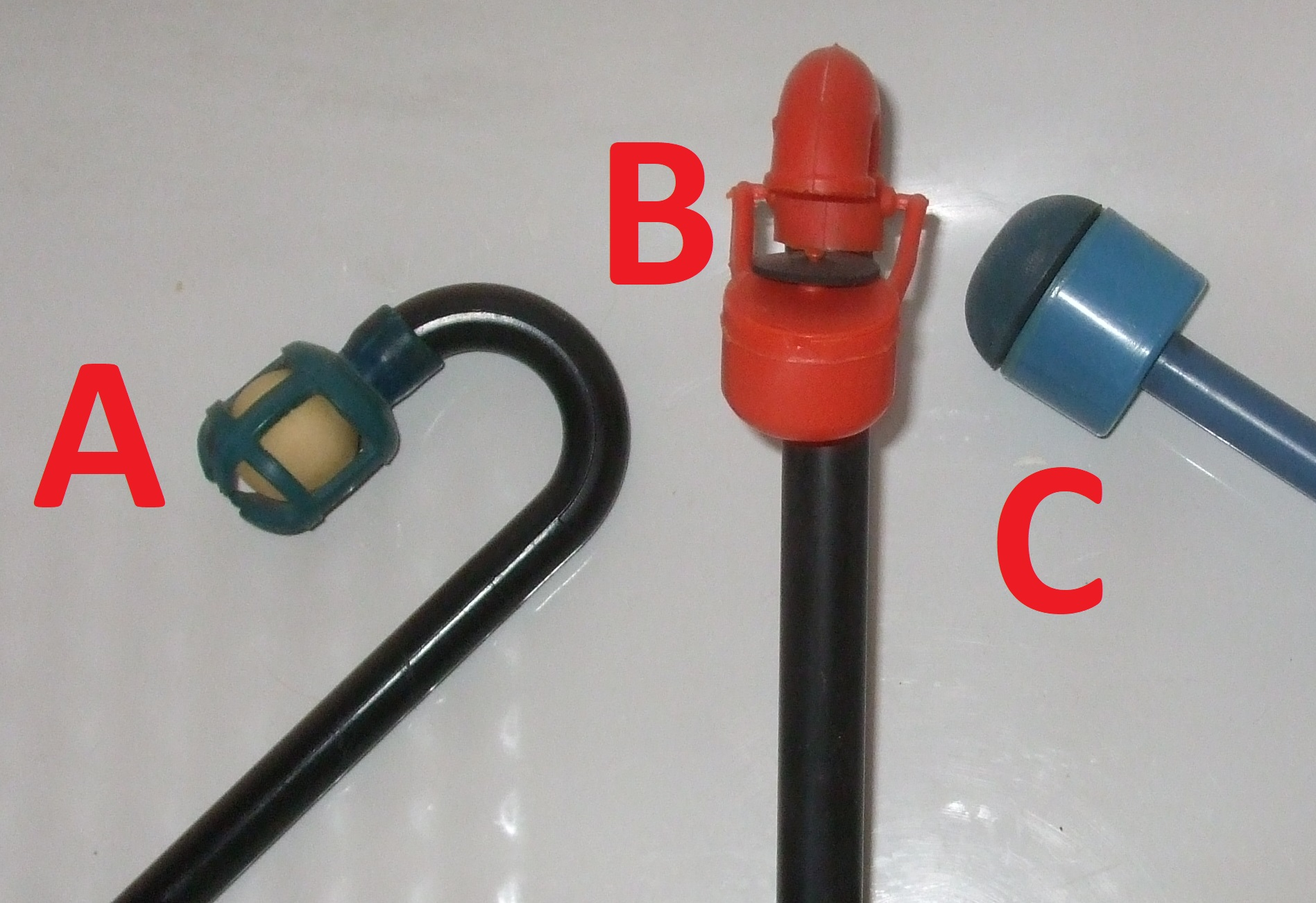 Three types of older-generation snorkel shutoff valves are illustrated. Type A: A shutoff valve using a ping-pong ball in a cage to prevent water ingress when submerged. Type B: A shutoff valve using a hinged "gamma" valve to prevent water ingress when submerged. Type C: A shutoff valve using a sliding float valve to prevent water ingress when submerged.